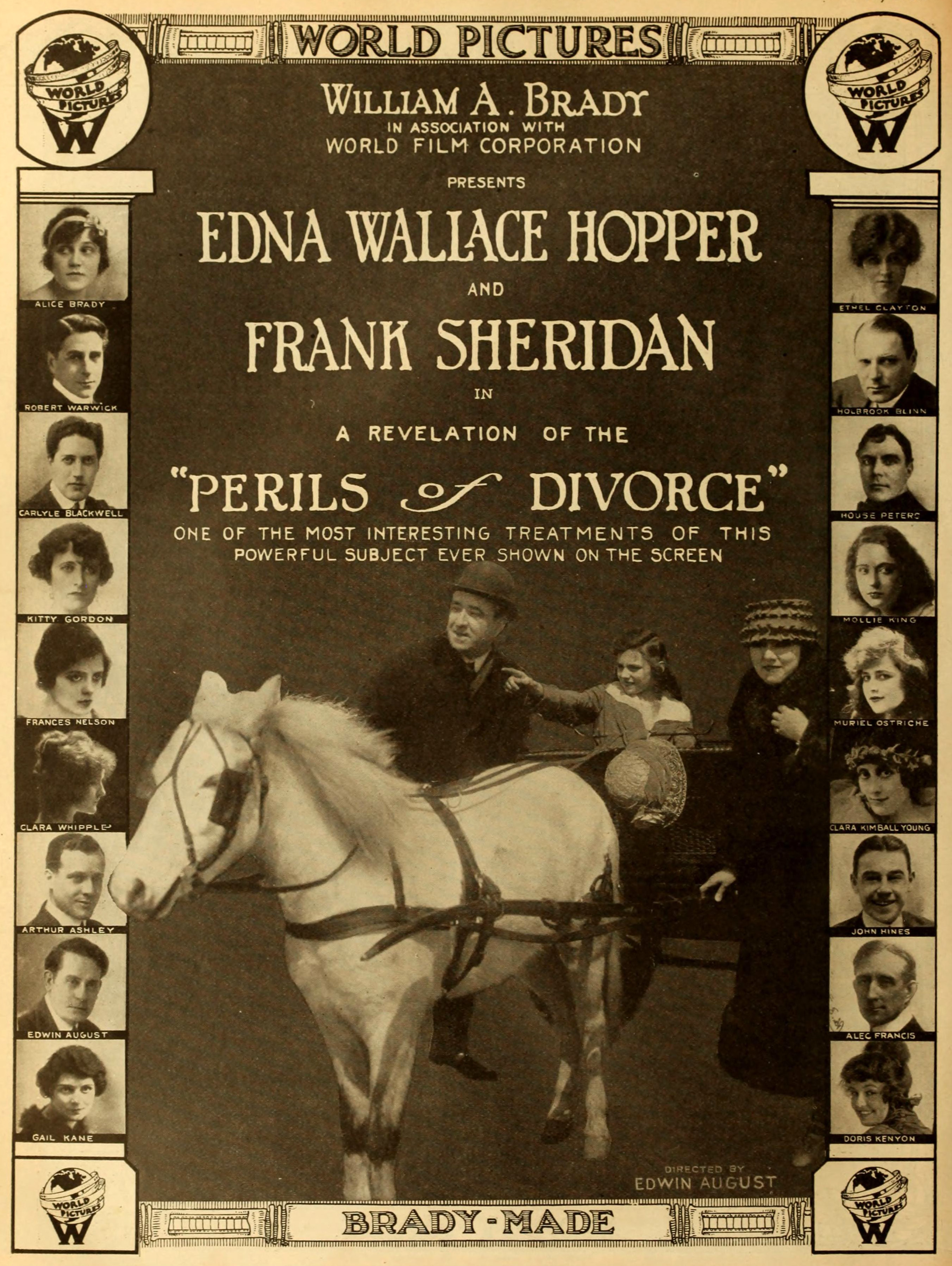 Advertisement in The Moving Picture World